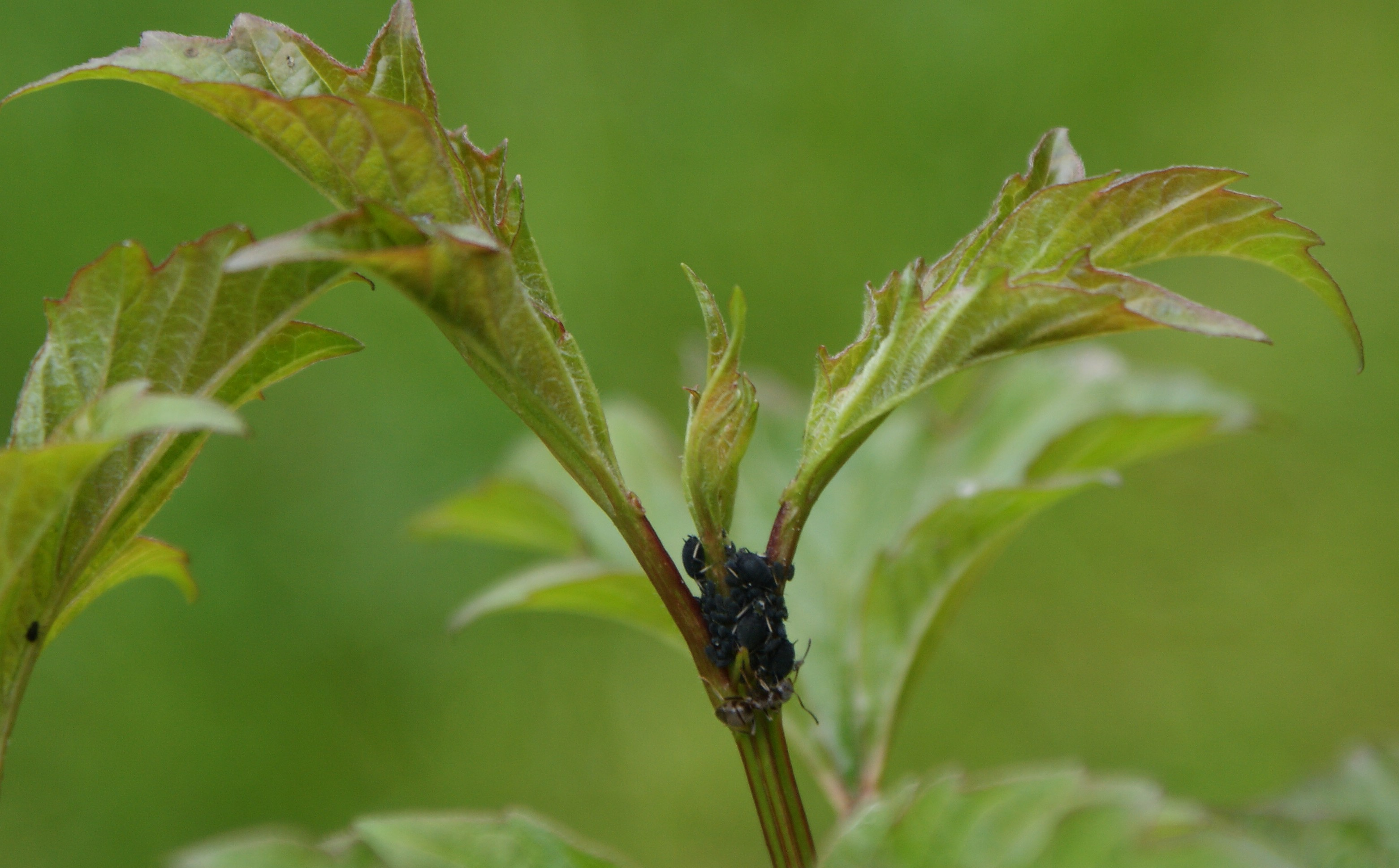 Aphis sp. (A. fabae or A. viburni) on young leaves and buds of Viburnum opulus